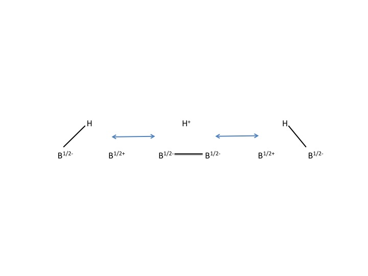 Figure 3. Boron has the ability to form a special kind of bond called “three-center-two-electron bond.” Pictured here are the resonance structures of a 3c-2e bond in diborane.